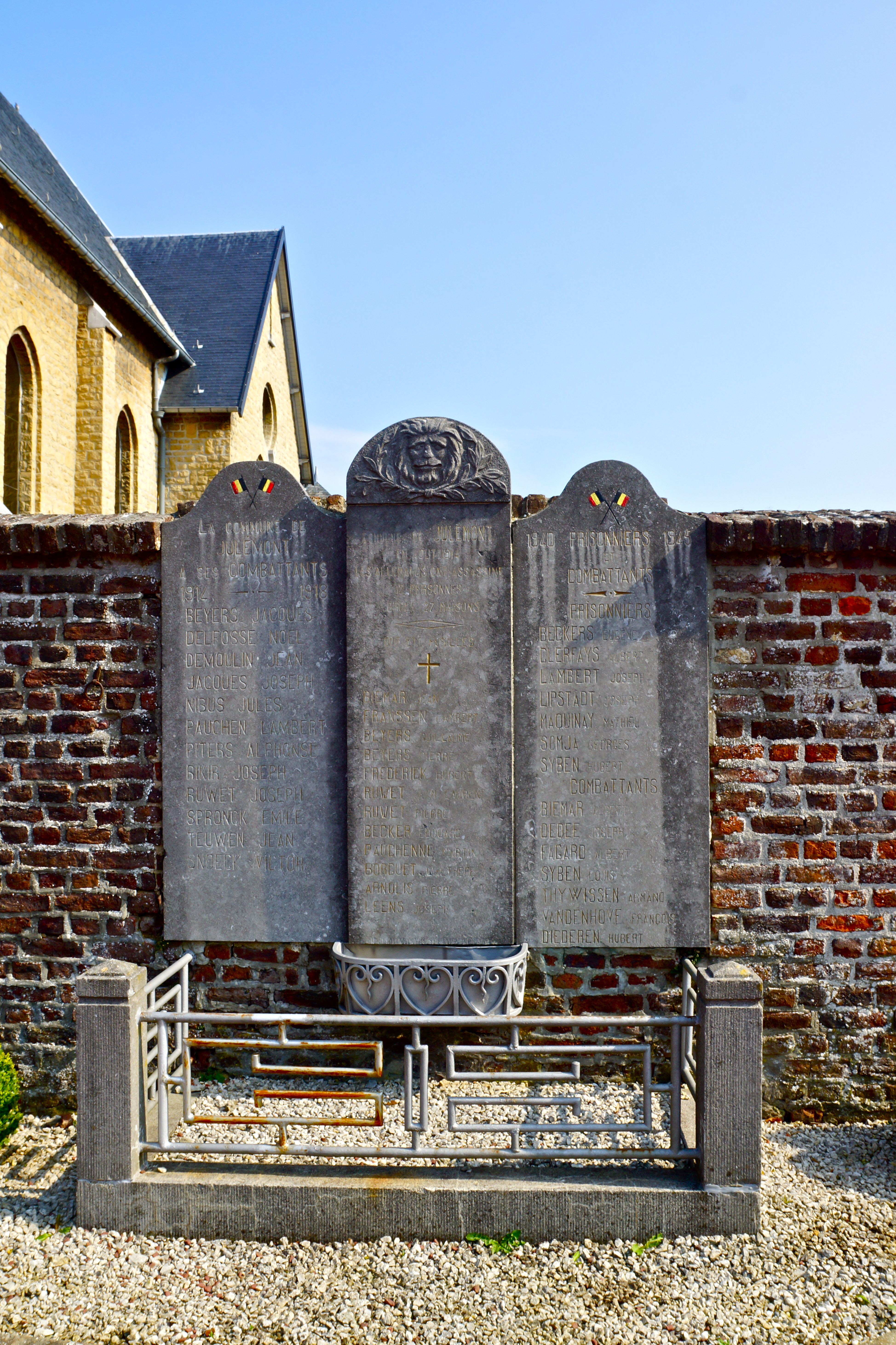 Herve (Julémont), Belgium: War Memorial First and Segond World War